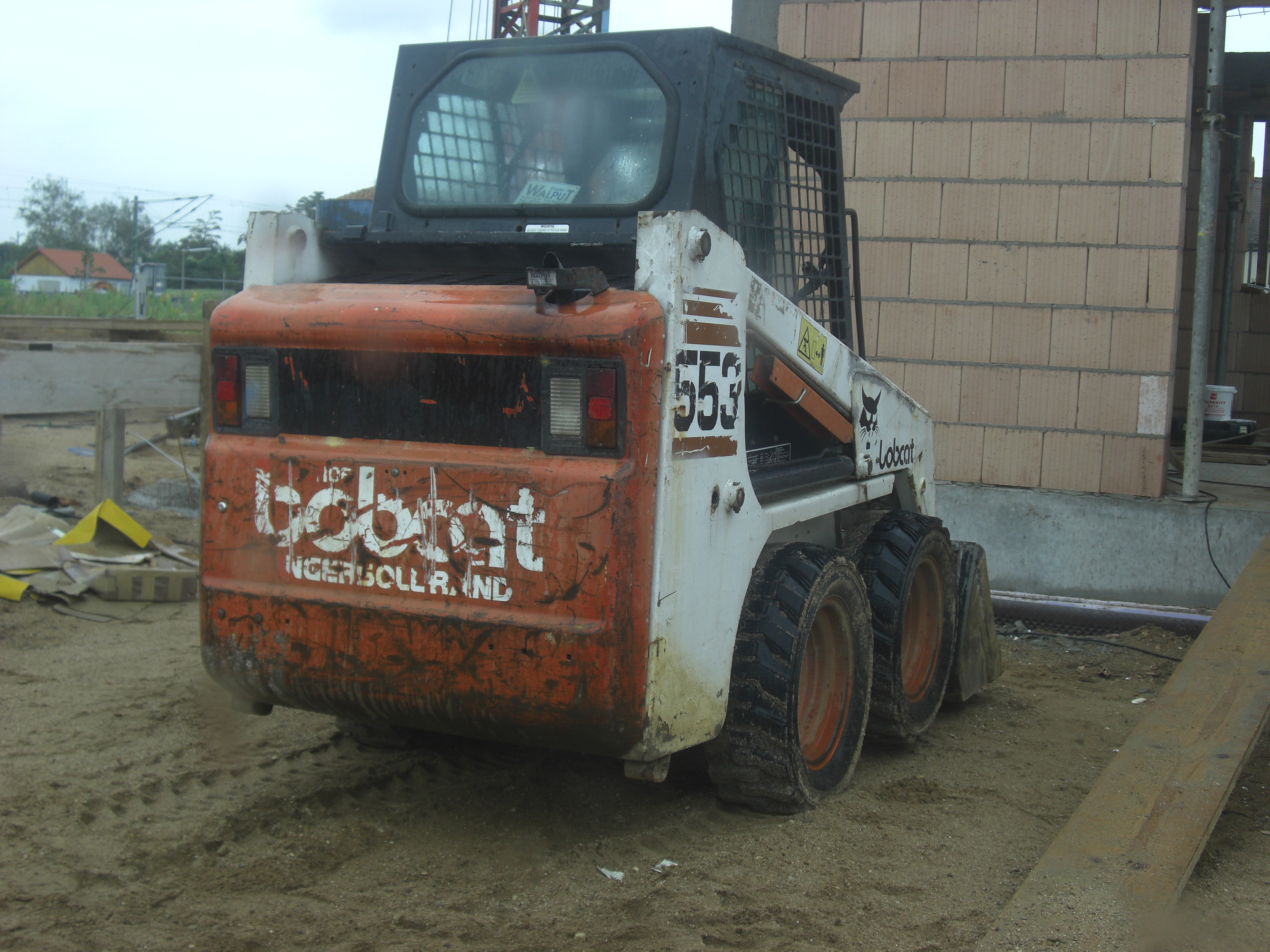 A Bobcat 553 skid-steer loader in the Panama Canal